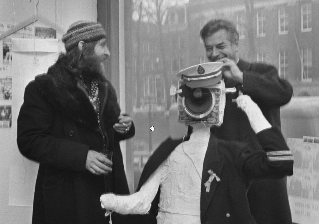 Joost Evers - Anefo: Ernst Vijlbrief at a vernissage in 1970 (crop) Kapiteinsbeeld van directeur De Wilde van Stedelijk Museum in Galerie Kristiaan in Amsterdam met de maker Ernst Vijlbrief en Edy de Wilde 26 januari 1970